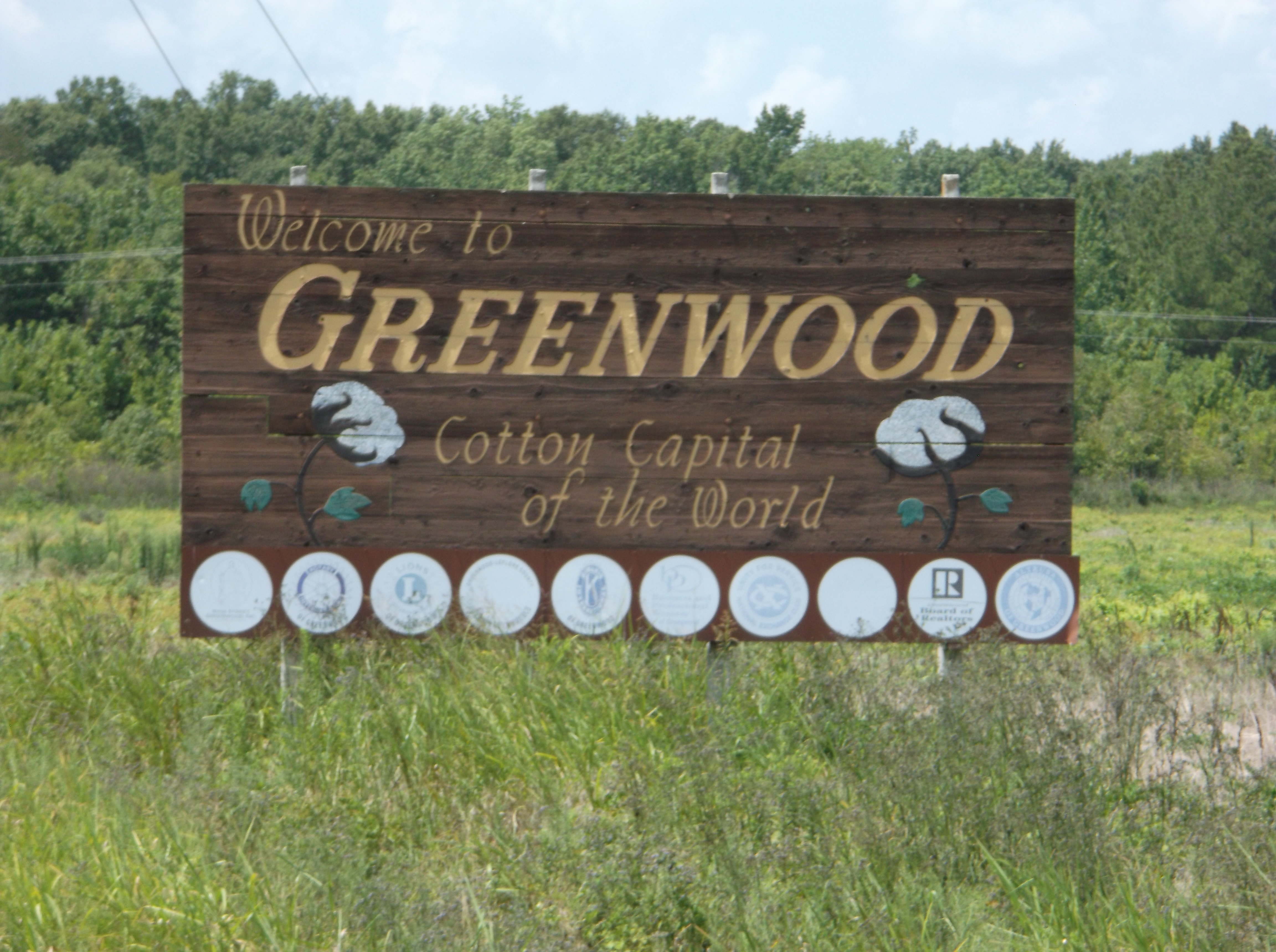 Welcome sign along Mississippi Highway 7 north of Greenwood